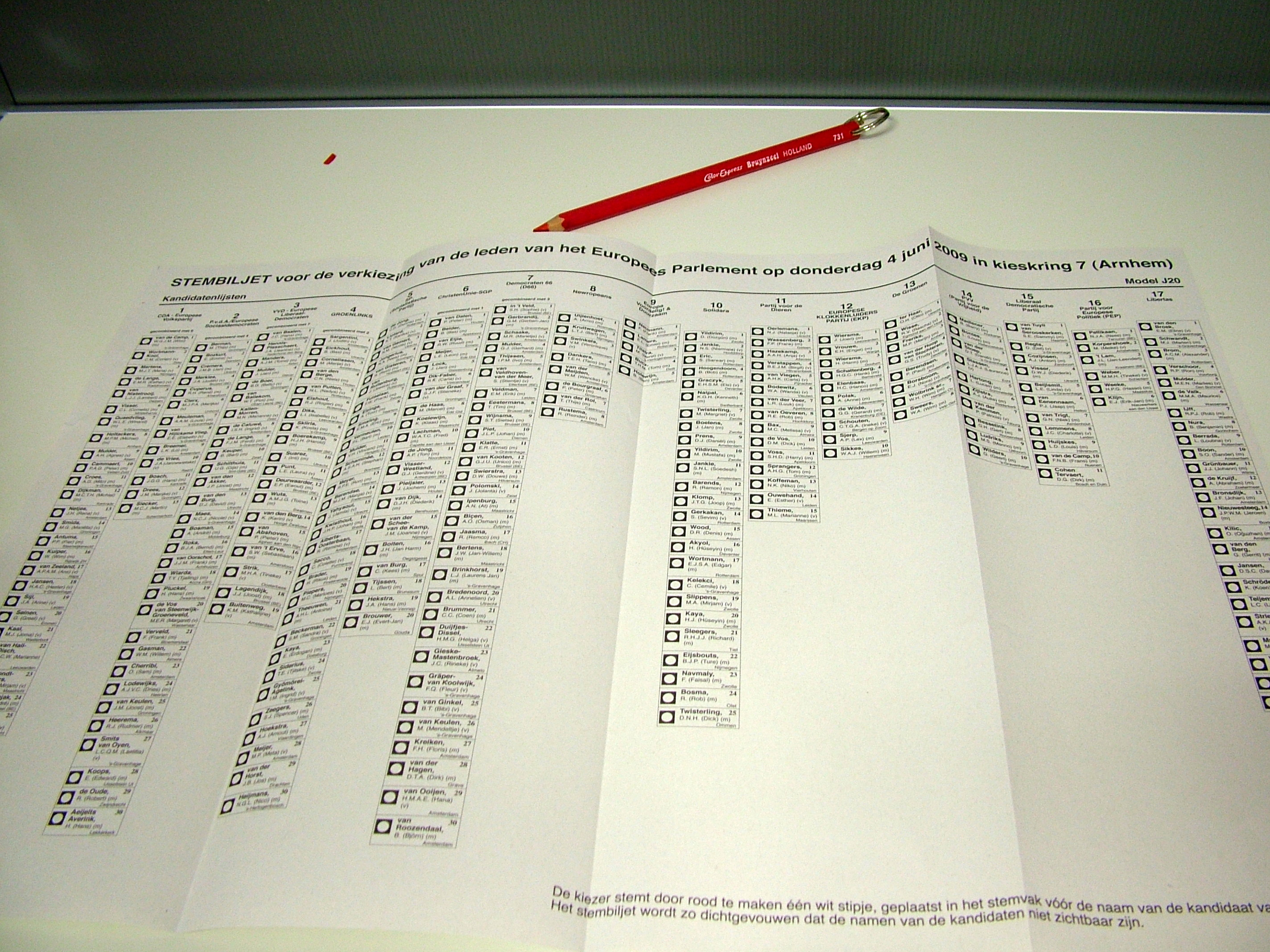 European Election 2009 in the Netherlands. Kieskring 7 (Arnhem): Stembiljet in cabine, Silvode.